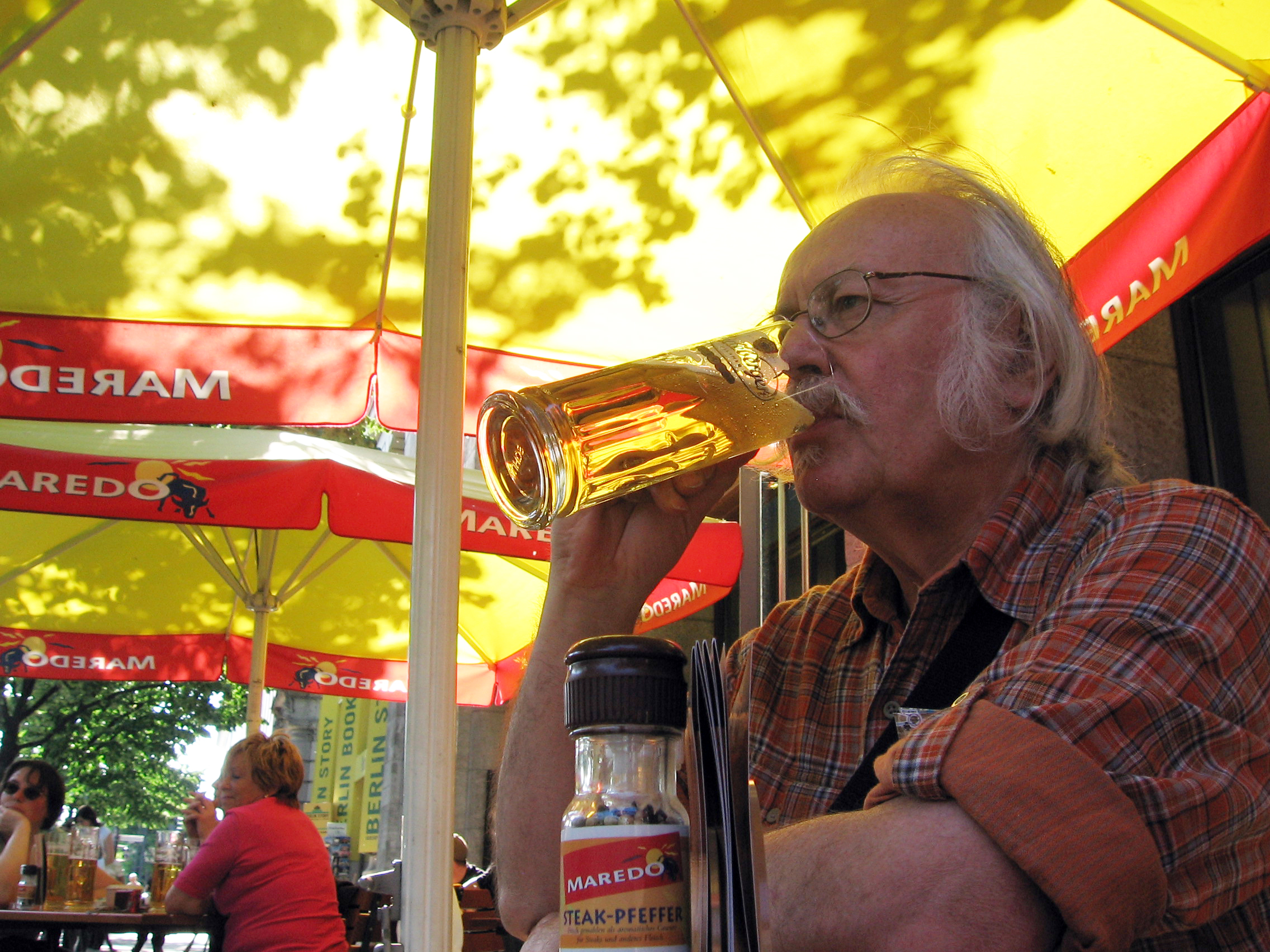 David Nicolle in Berlin, May 2011